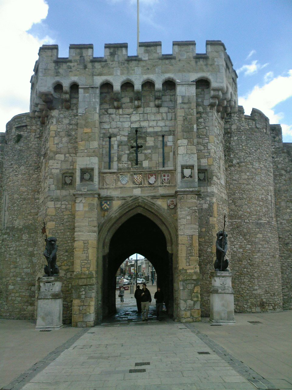 Bargate, Southampton, Hampshire